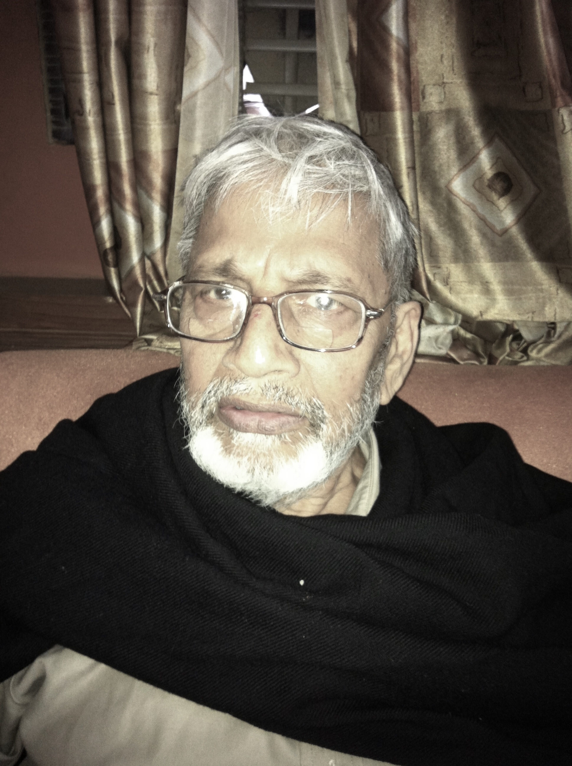 Bhagwan Singh - Indian Writer, Historian, Linguist